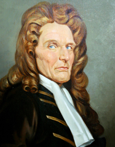 Nicholas Barbon, English economist, physician and financial speculator.